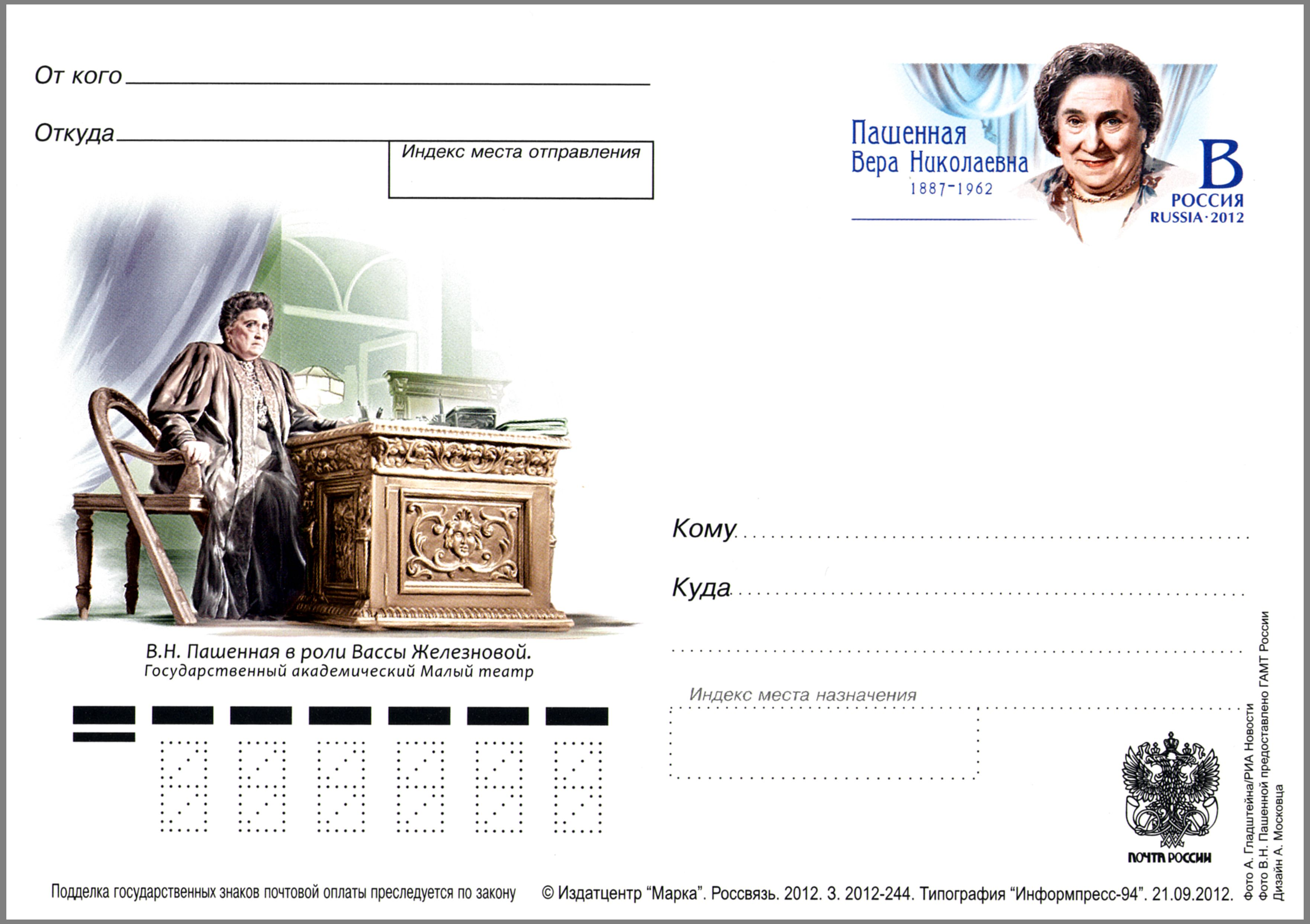 125th birth anniversary of the Russian theater and cinema actress Vera Pashennaya (1887–1962). The postal stationery card with the imprinted commemorative stamp, Russia, 17 October 2012, PTC Marka Catalogue No 237-окр/12, Michel No PSo227. Coated paper. Offset printing. Size of the postal card: 105×148 mm. Print run: 12,000. The commemorative non-denominated stamp “Letter B” (for domestic postal cards): the portrait of Vera Pashennaya. The illustration: Vera Pashennaya as Vassa Borisovna Zheleznova in the drama Vassa Zheleznova by Maxim Gorky. The Maly Theatre. After the photo by Alexander Gladschtein. 1961.